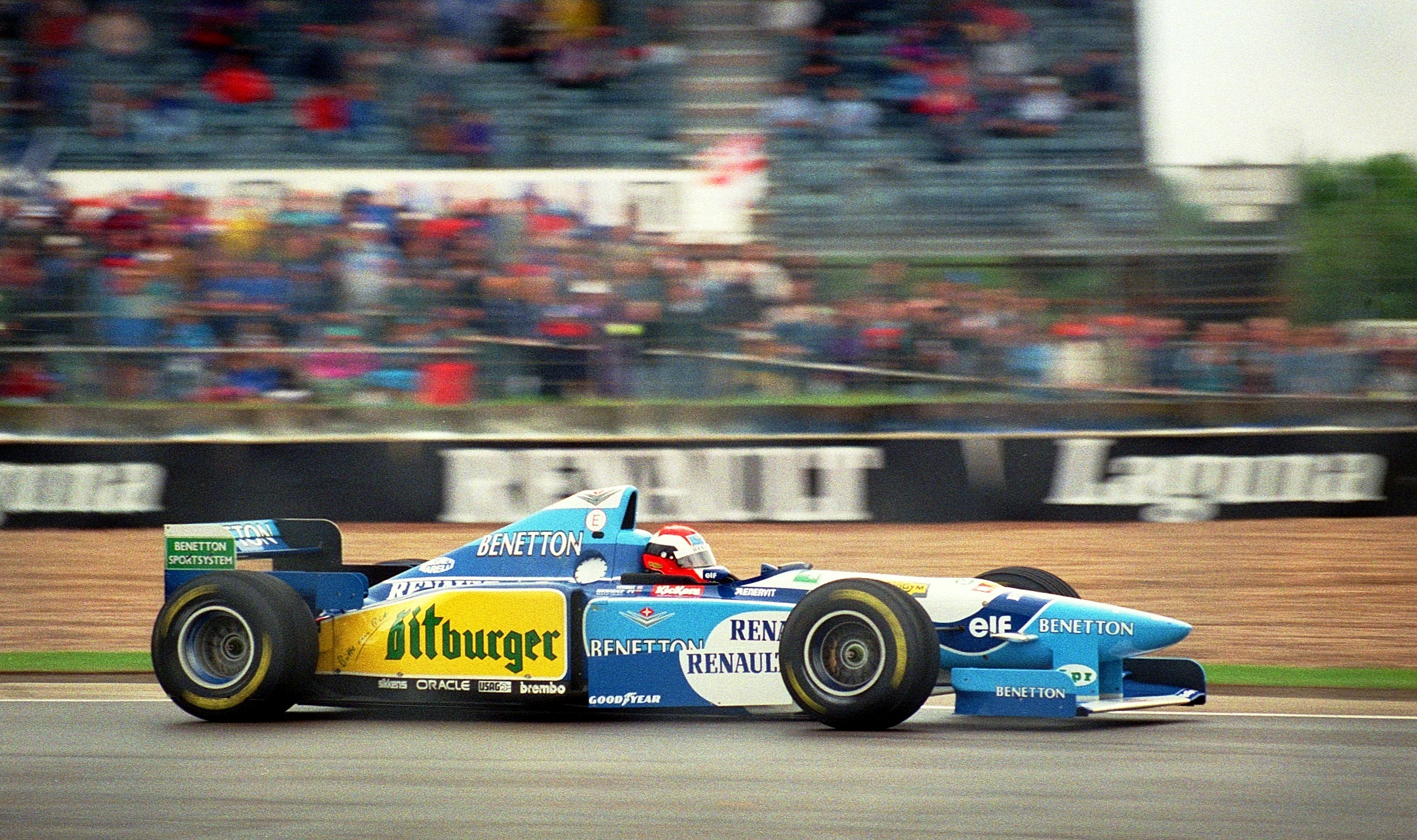 1995 British Grand Prix